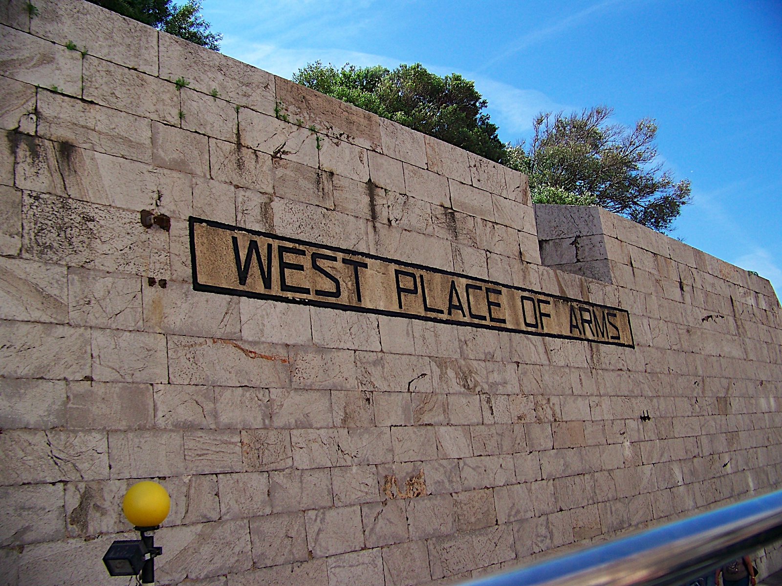 External façade of West Place of Arms, part of Gibraltar's city walls. Taken from Glacis Road.